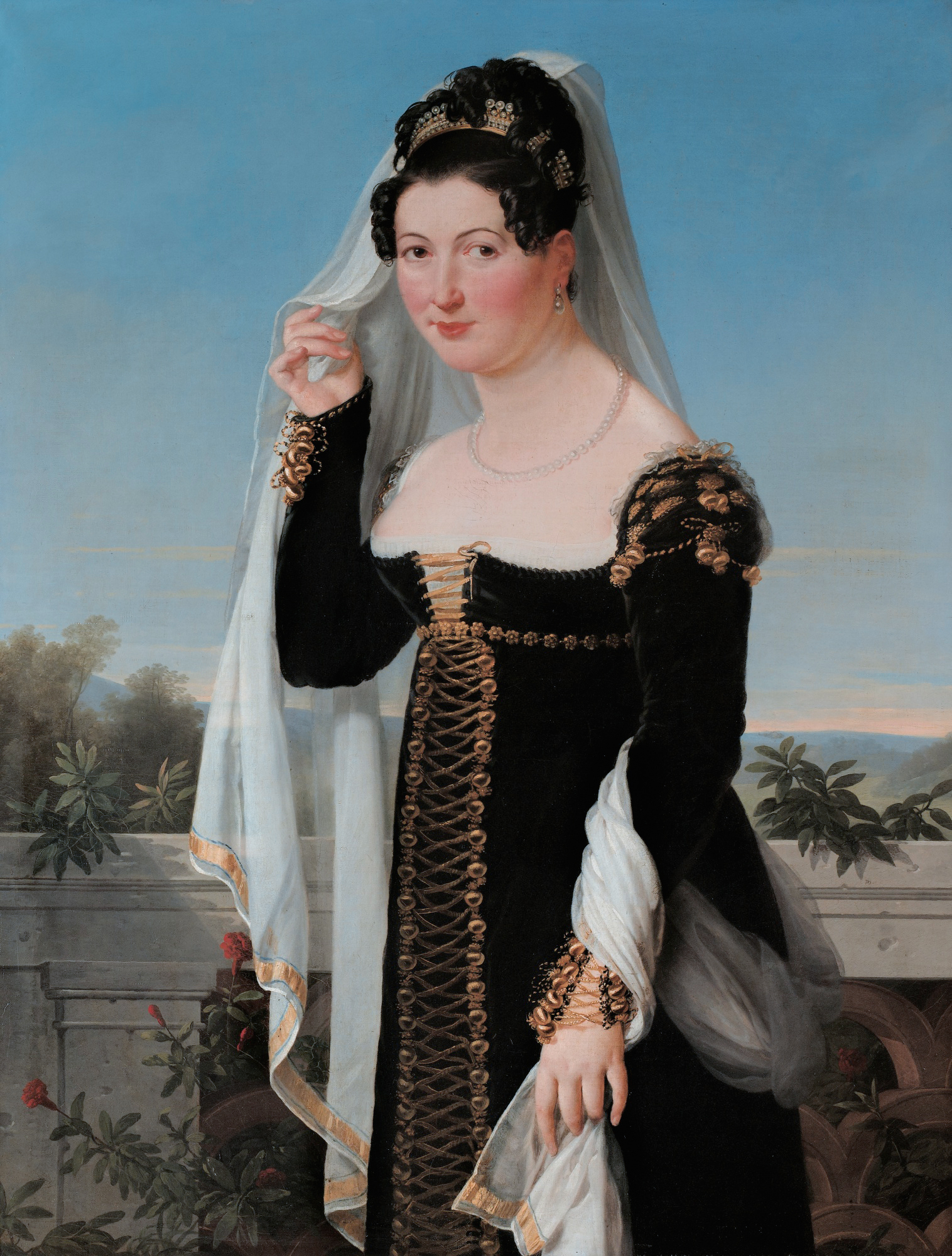 Presumed portrait of Adelheid von Anhalt-Bernburg, Duchess of Oldenburg oil on canvas 115 x 88 cm